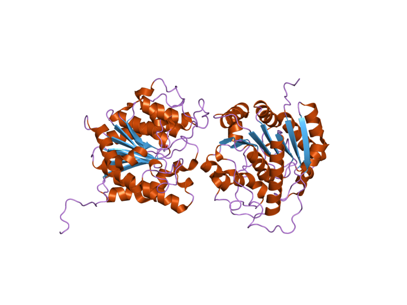 Cartoon representation of the molecular structure of protein registered with 2zav code.